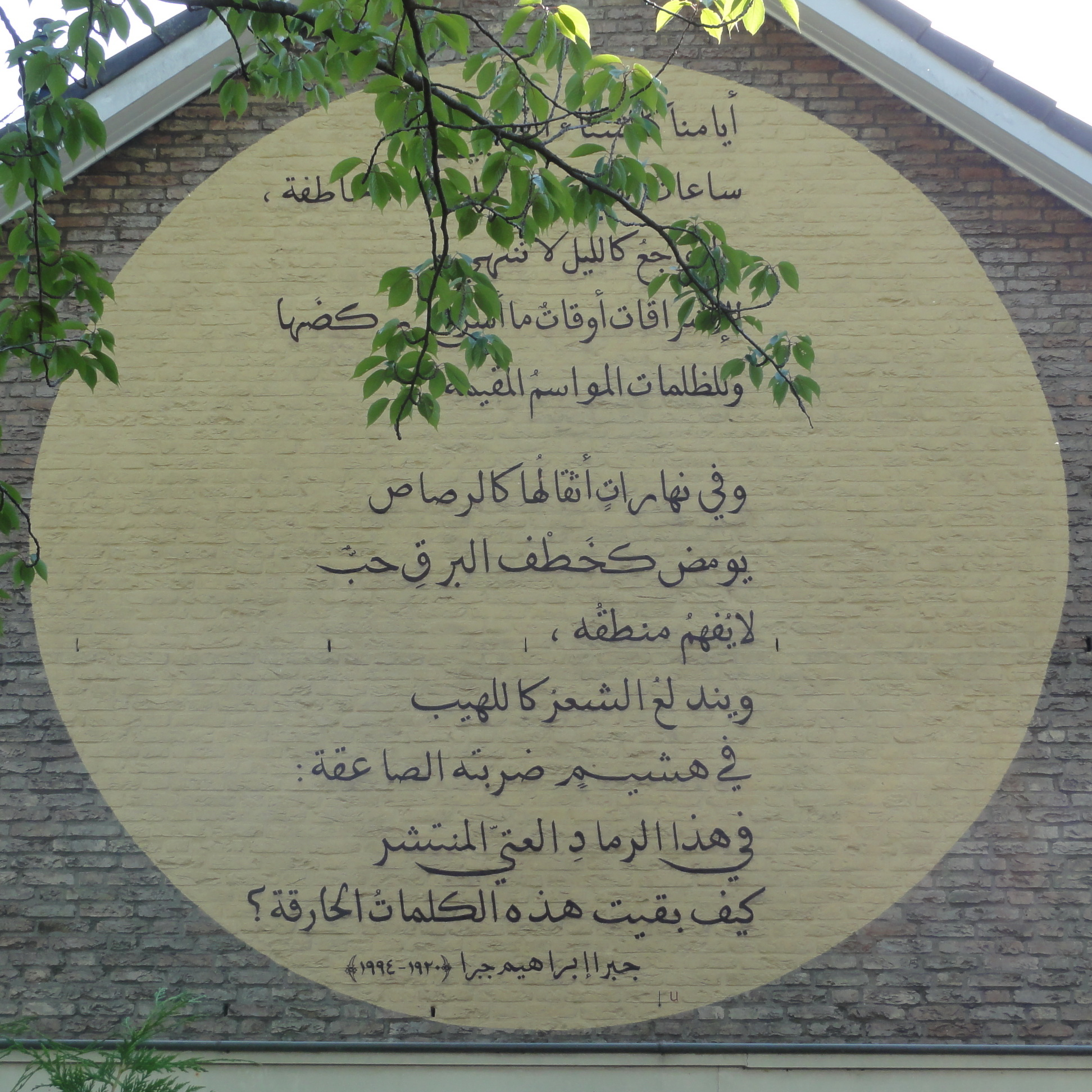 Wallpoem 'Like a polar winter...' by Jabra Ibrahim Jabra, Berlagestraat 13a, Leiden